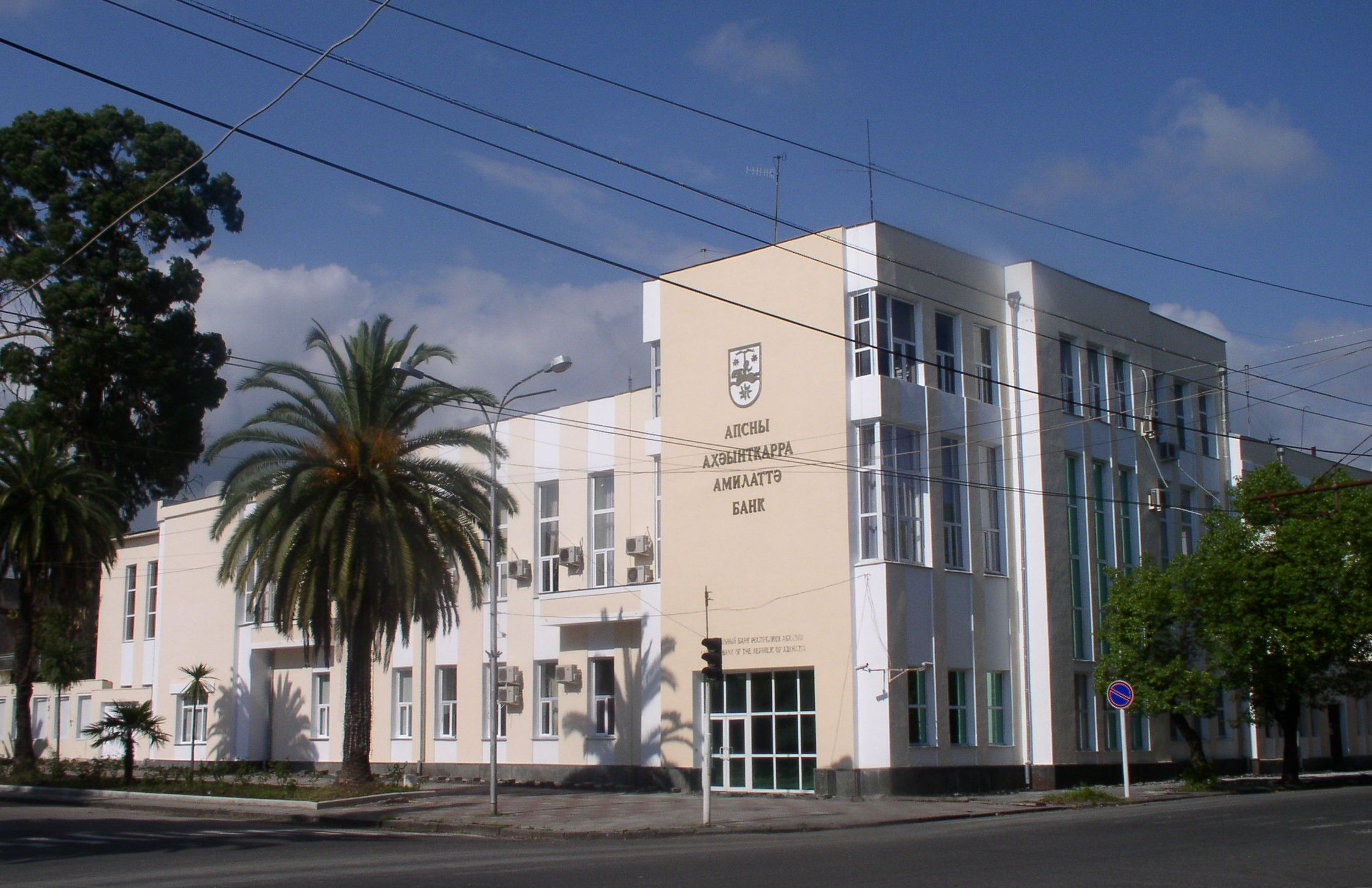 National bank of Abkhazia in Sukhmumi